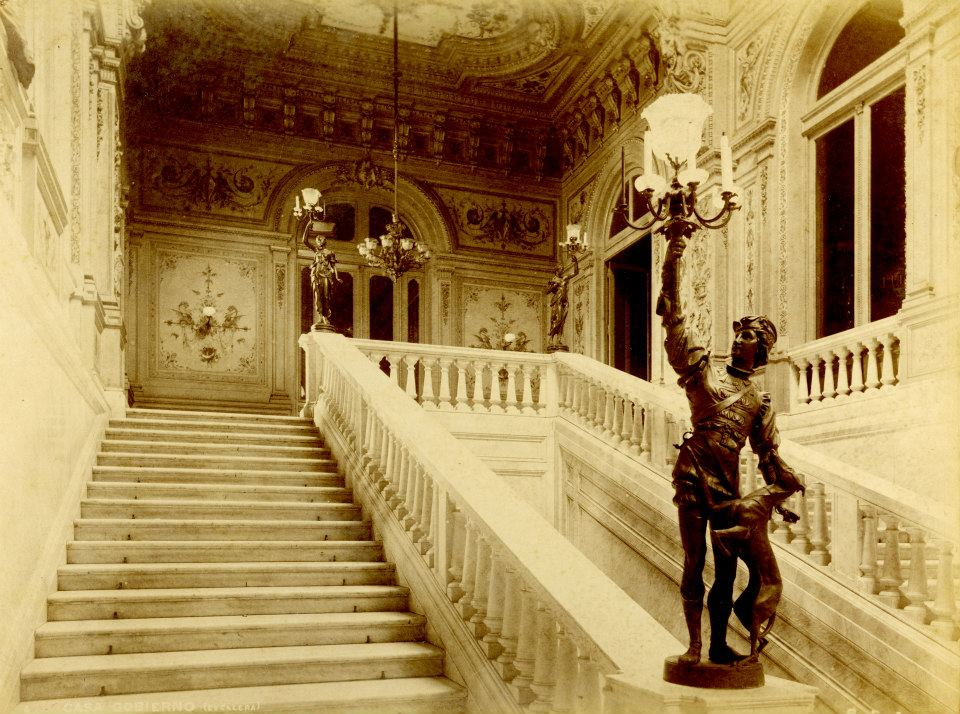 Stairway of Honor, then named "Italia". Interior of Casa Rosada of Argentina.